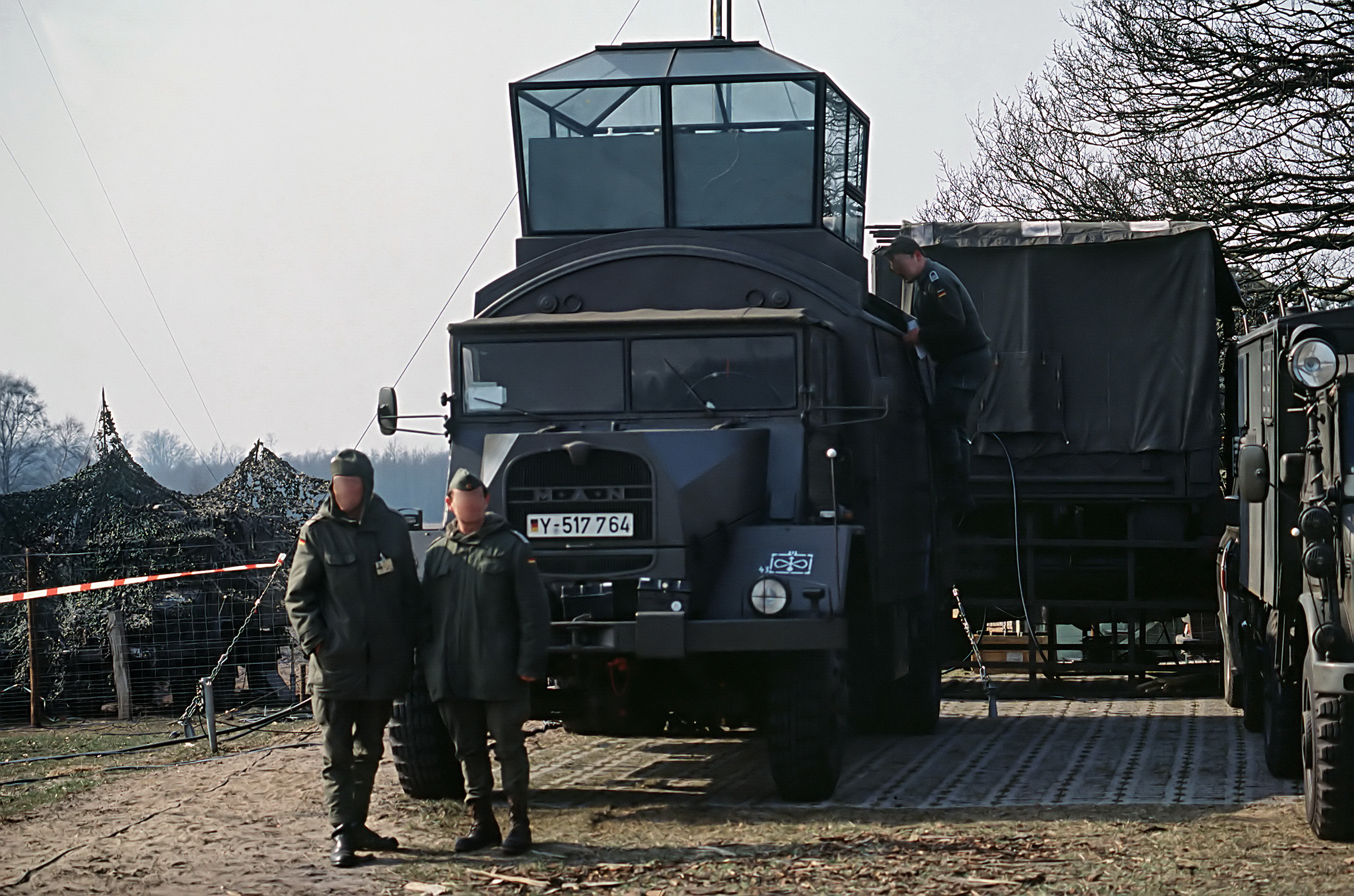 West German soldiers operate a transportable air traffic control tower during an autobahn landing exercise